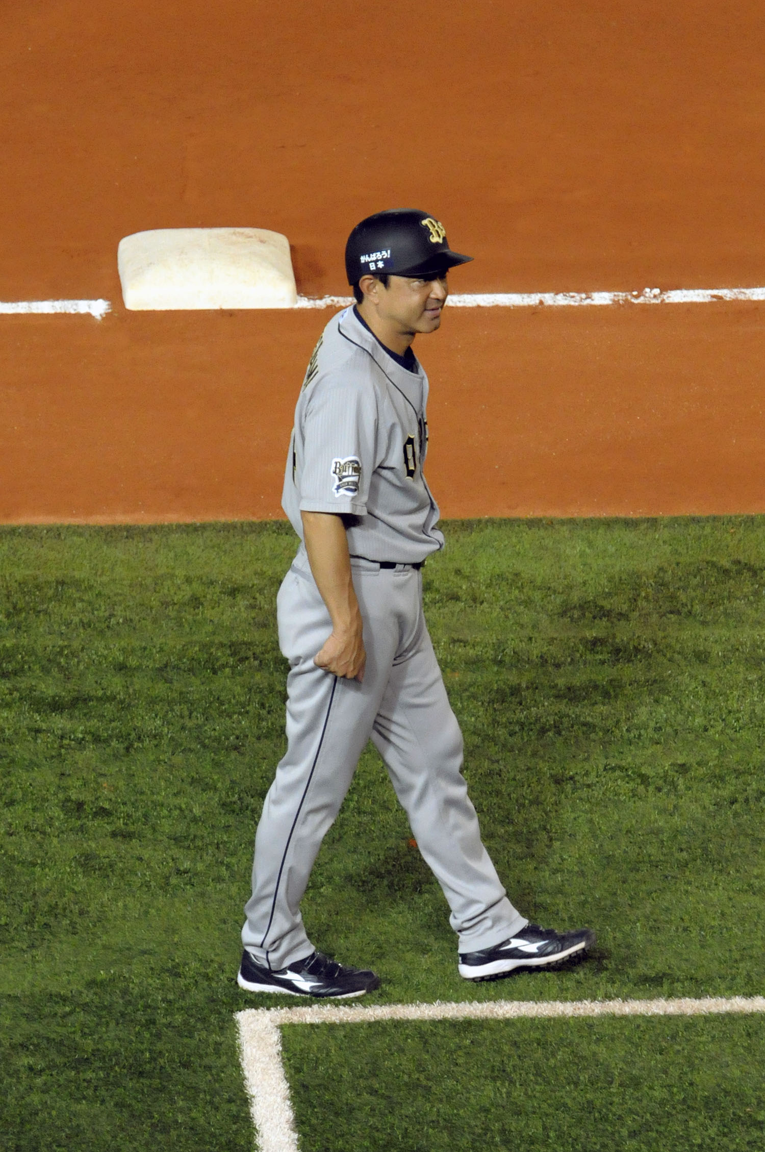 Hideaki Matsuyama, coach of the Orix Buffaloes, at Chiba Marine Stadium.